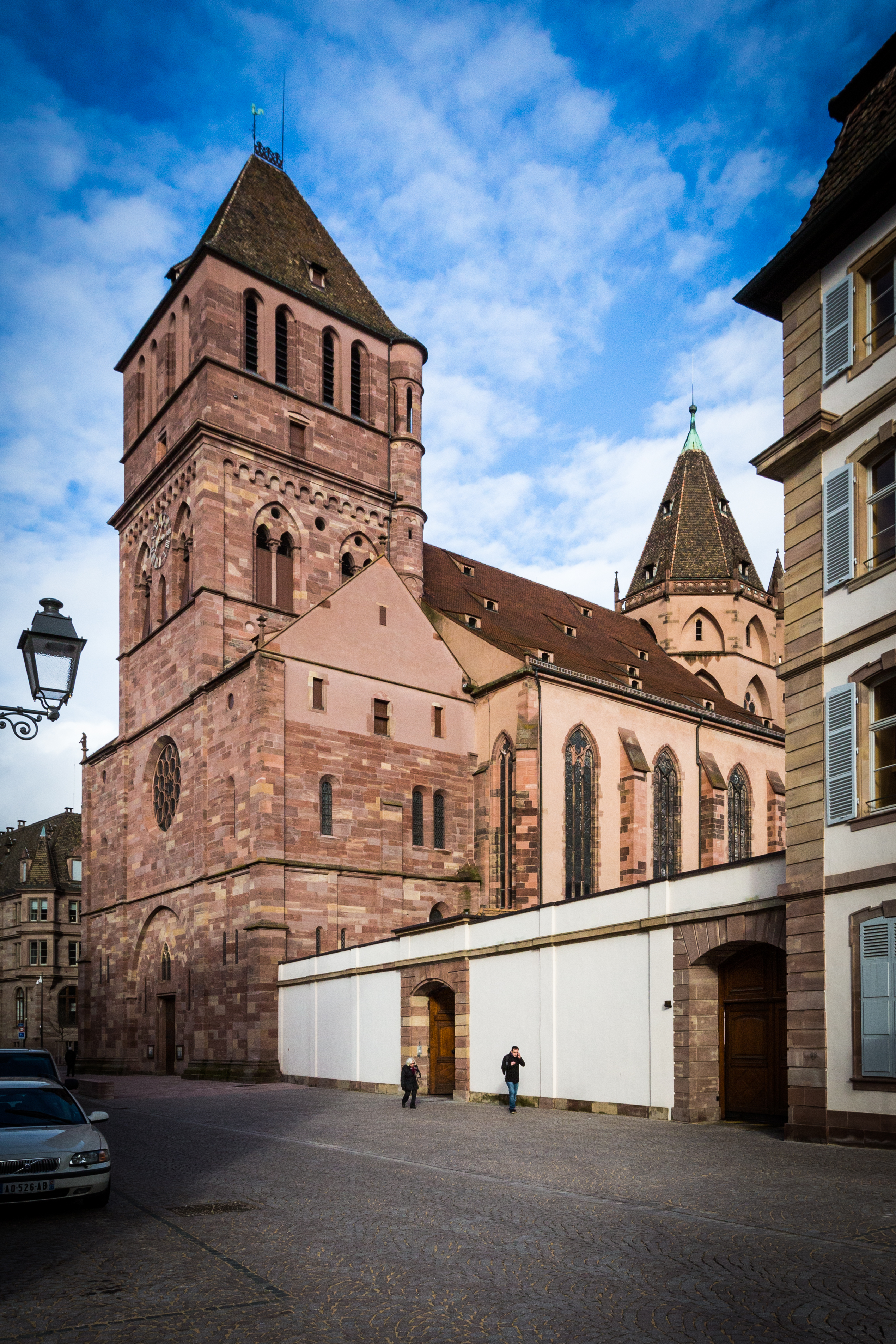 Strasbourg Église St Thomas janvier 2015